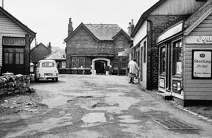 Mallaig station 1966